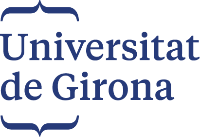 logo principal de la UdG